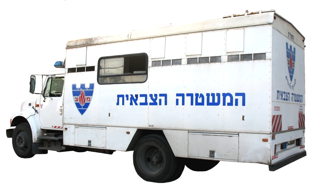 A police van for the conveyance of prisoners (Hebrew slang: Zinzana), used by the Israeli military police. Background and license plate censored for obvious reasons. Picture taken on April 16, 2007.